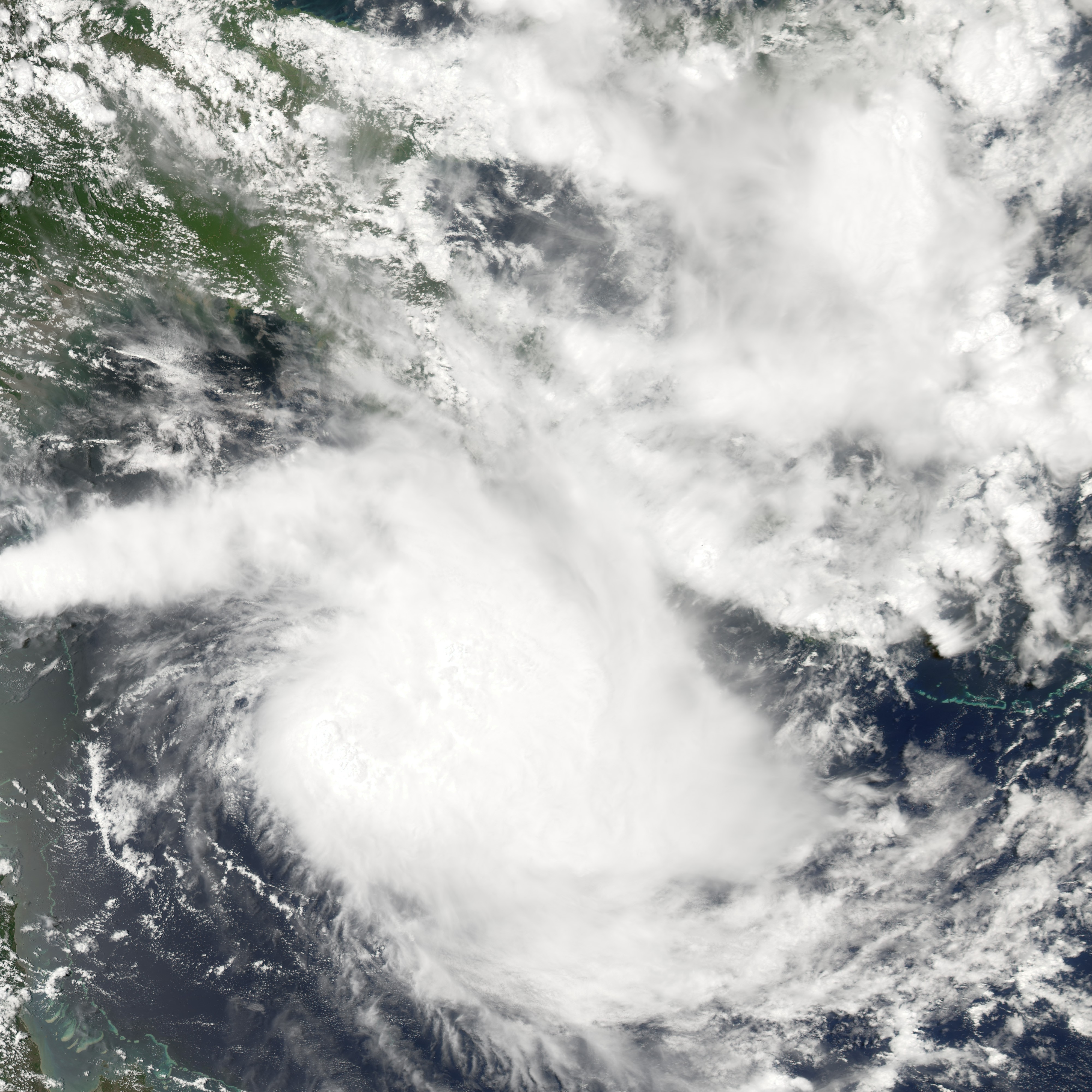 Tropical Cyclone Kate swirls in the Torres Strait between Australia’s Cape York Peninsula and the island of New Guinea in this satellite view of the storm, obtained by the Moderate Resolution Imaging Spectroradiometer (MODIS) instrument on NASA’s Aqua satellite on February 23, 2006. Kate was the second tropical cyclone in 2006 to form off the coast of Queensland. It was not a particularly powerful system when MODIS obtained this view, with peak winds around 80 kilometers per hour (50 miles per hour). However, because it was located so far offshore, there was little observed data from ground stations and radar instruments, which was making predictions of the storm’s path and future intensity a challenge, according to the Tropical Cyclone Warning Centre.